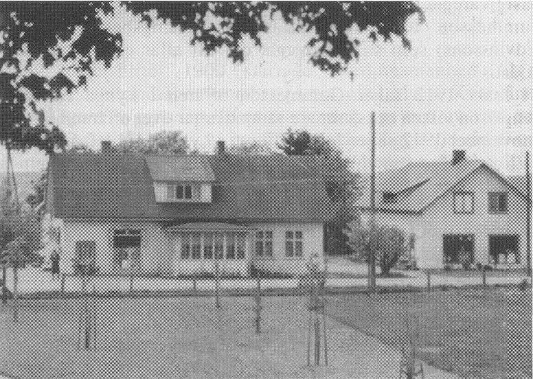 The old store in Lynga, Okome parish, built in 1907, torn down in 1965